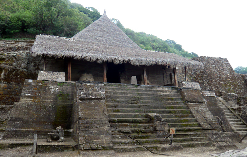 The Temple of the Jaguar at the Aztec site of Malinalco, Mexico State.